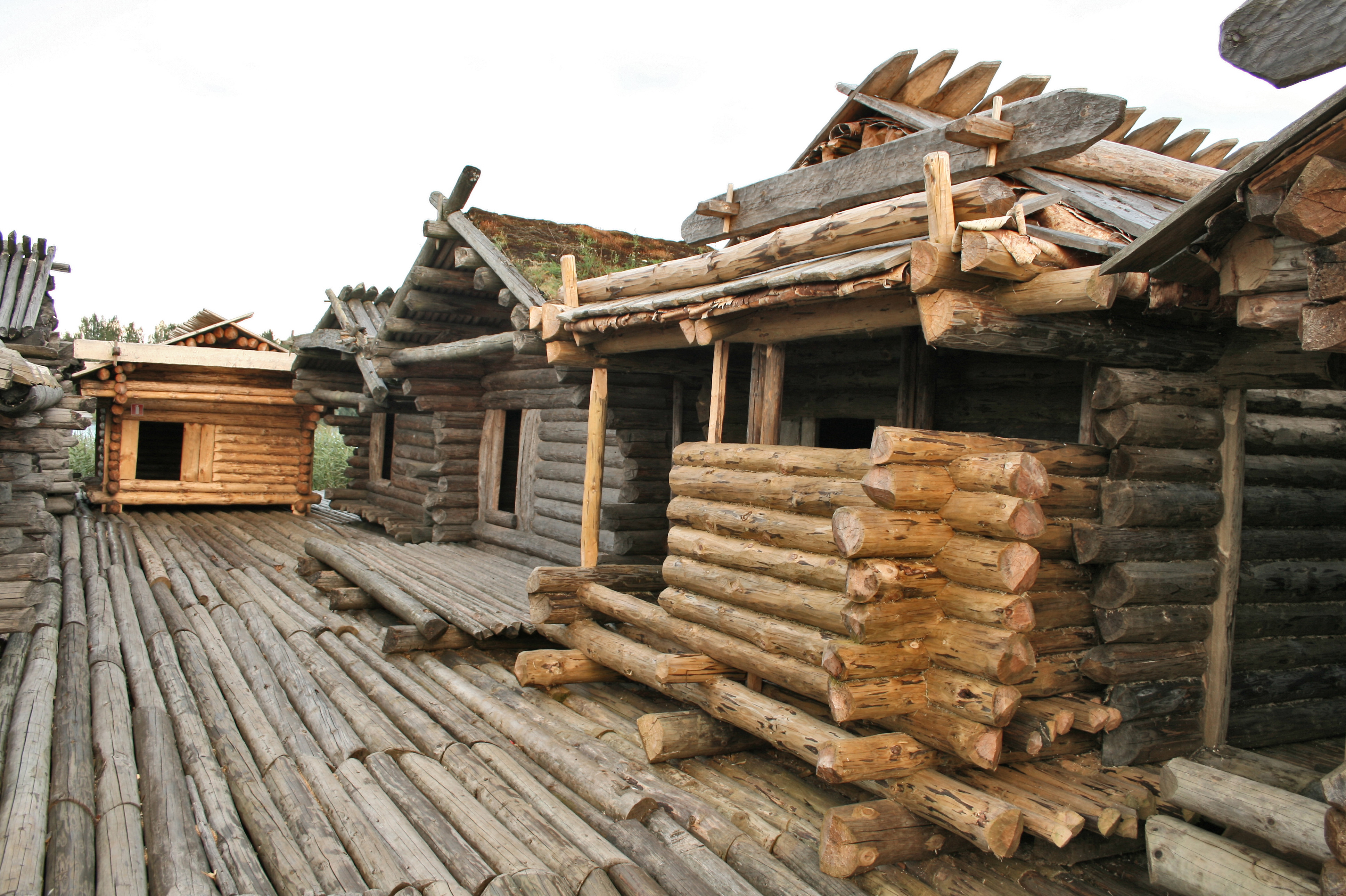 Āraiši lake dwelling siteLatviešu: Āraišu ezerpils